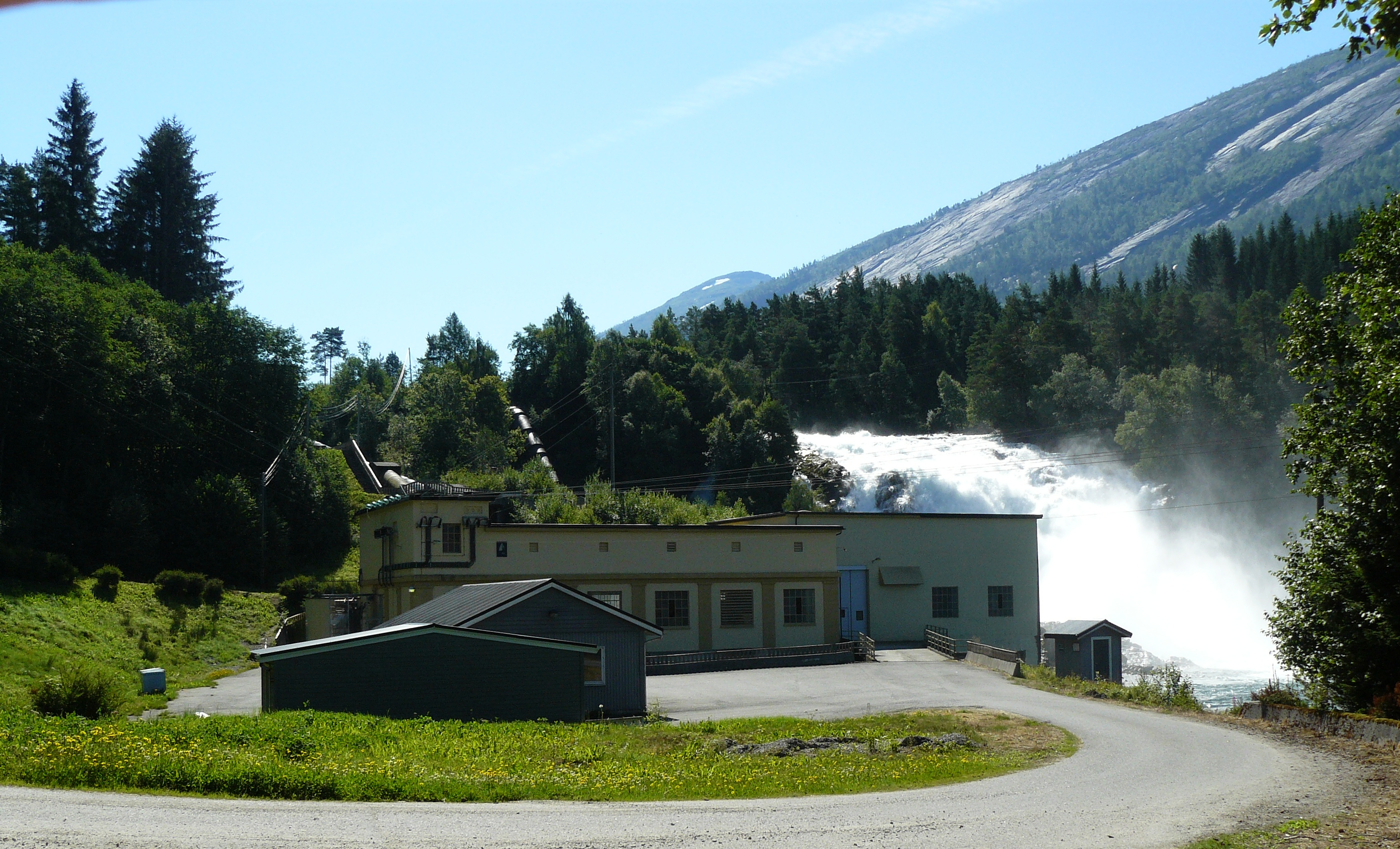 Eidsfoss hydropowerstation in Gloppen, sitting nest to the caskading Eidsfoss waterfall.